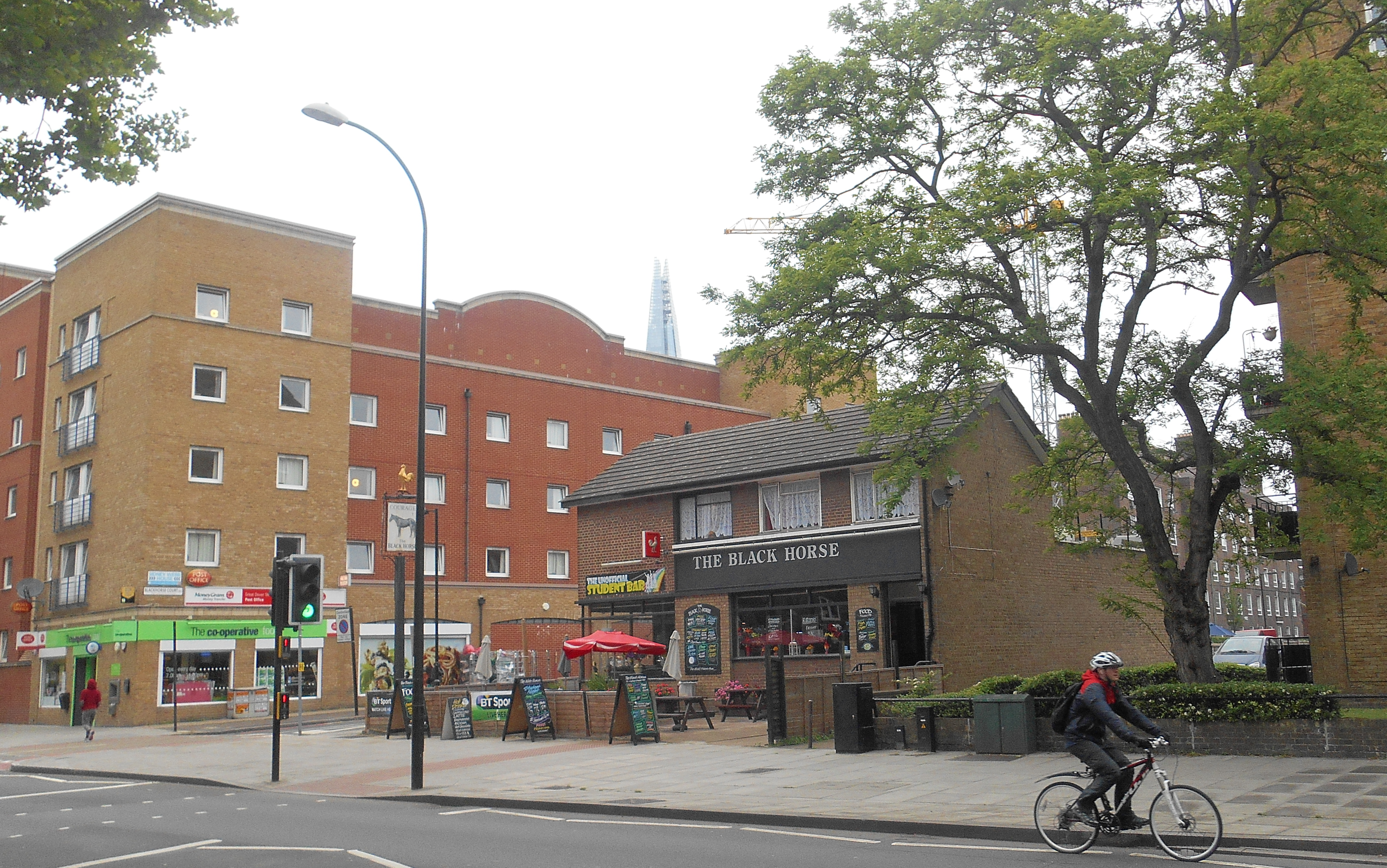 The Black Horse Student Bar (Angle Great Dover St Black Horse Ct, London-Southwark)